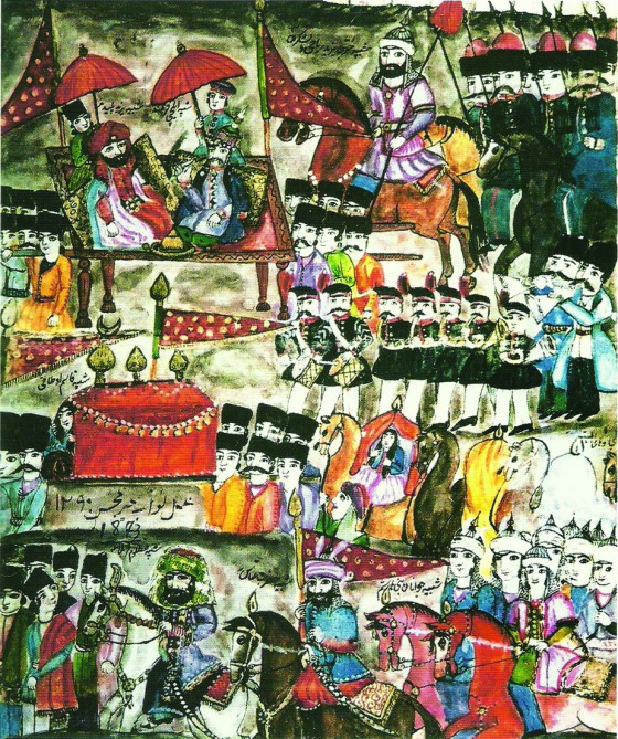 The scenes from theatrical performance Shabeh (Passion pleys). 1873. Mir Mohsun Navvab. Shusha, Garabagh. Azerbaijan. Opaque watercolour on paper.